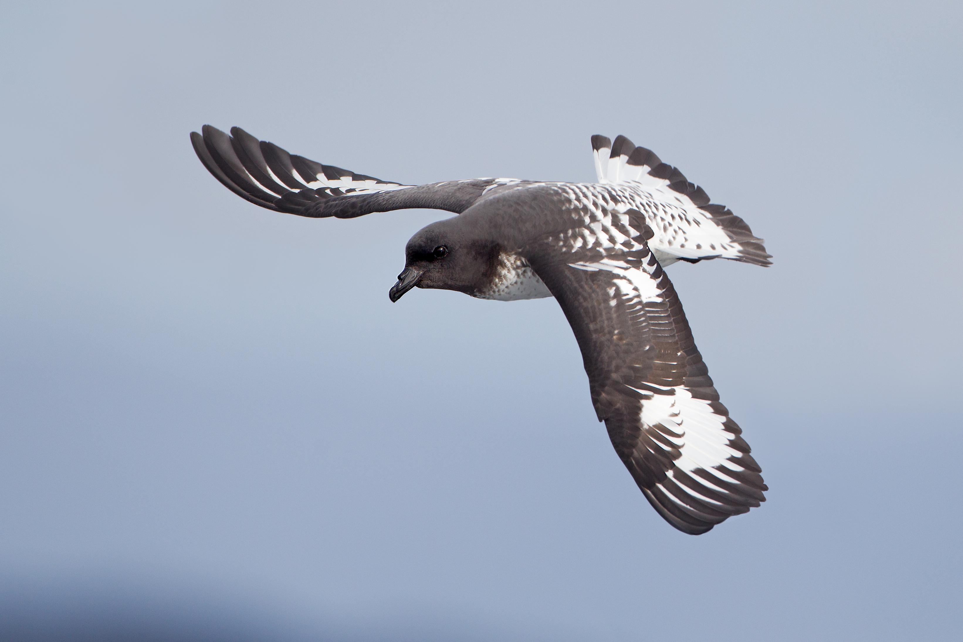 Cape Petrel (Daption capense australe), East of the Tasman Peninsula, Tasmania, Australia